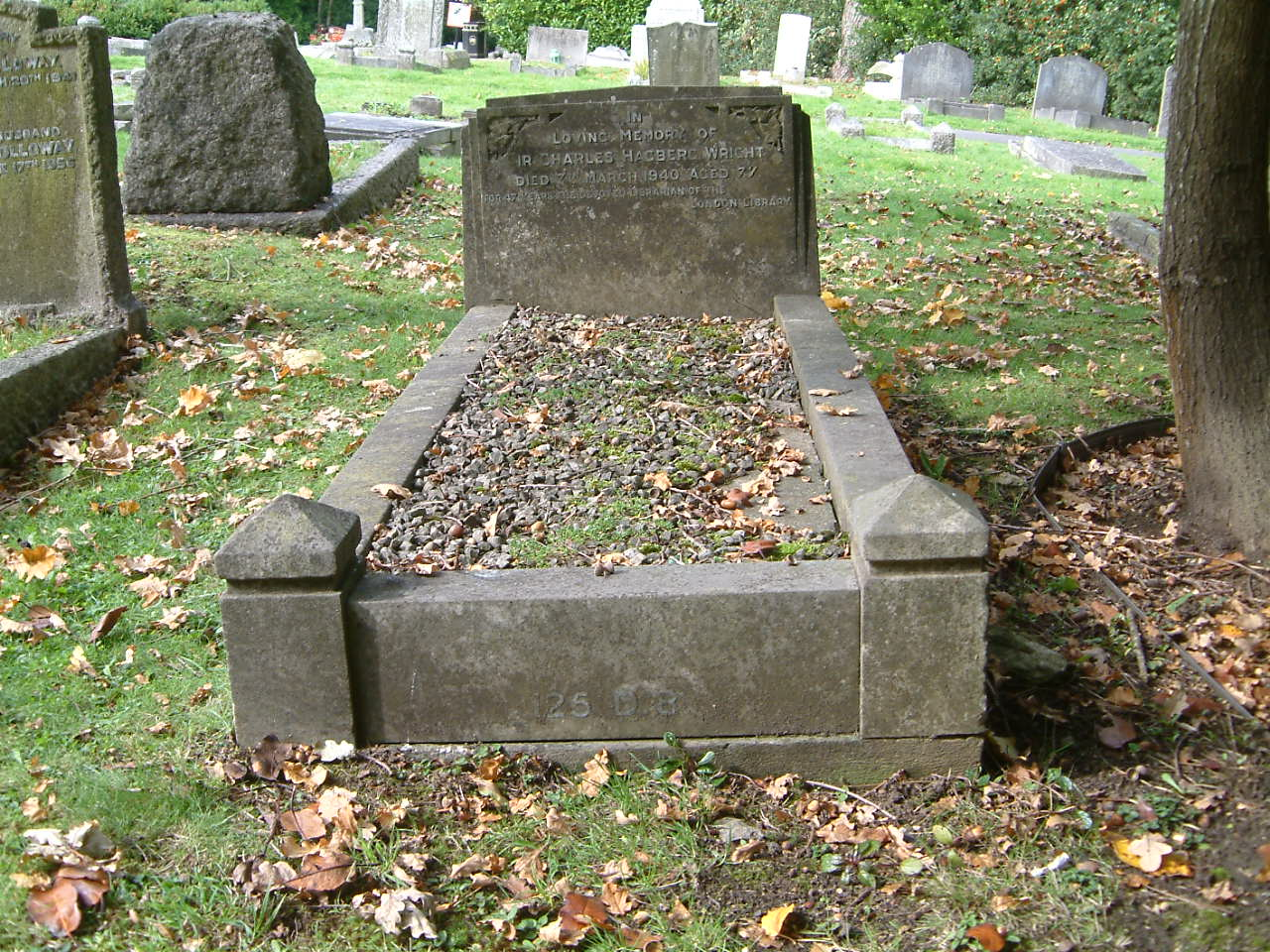 Charles Theodore Hagberg Wright, Mill Hill Cemetery, London, England, Section D8 Grave 125